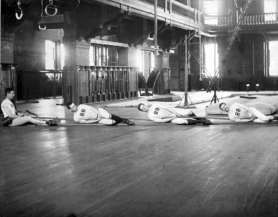 Harvard University Tug of War Team, 1888.